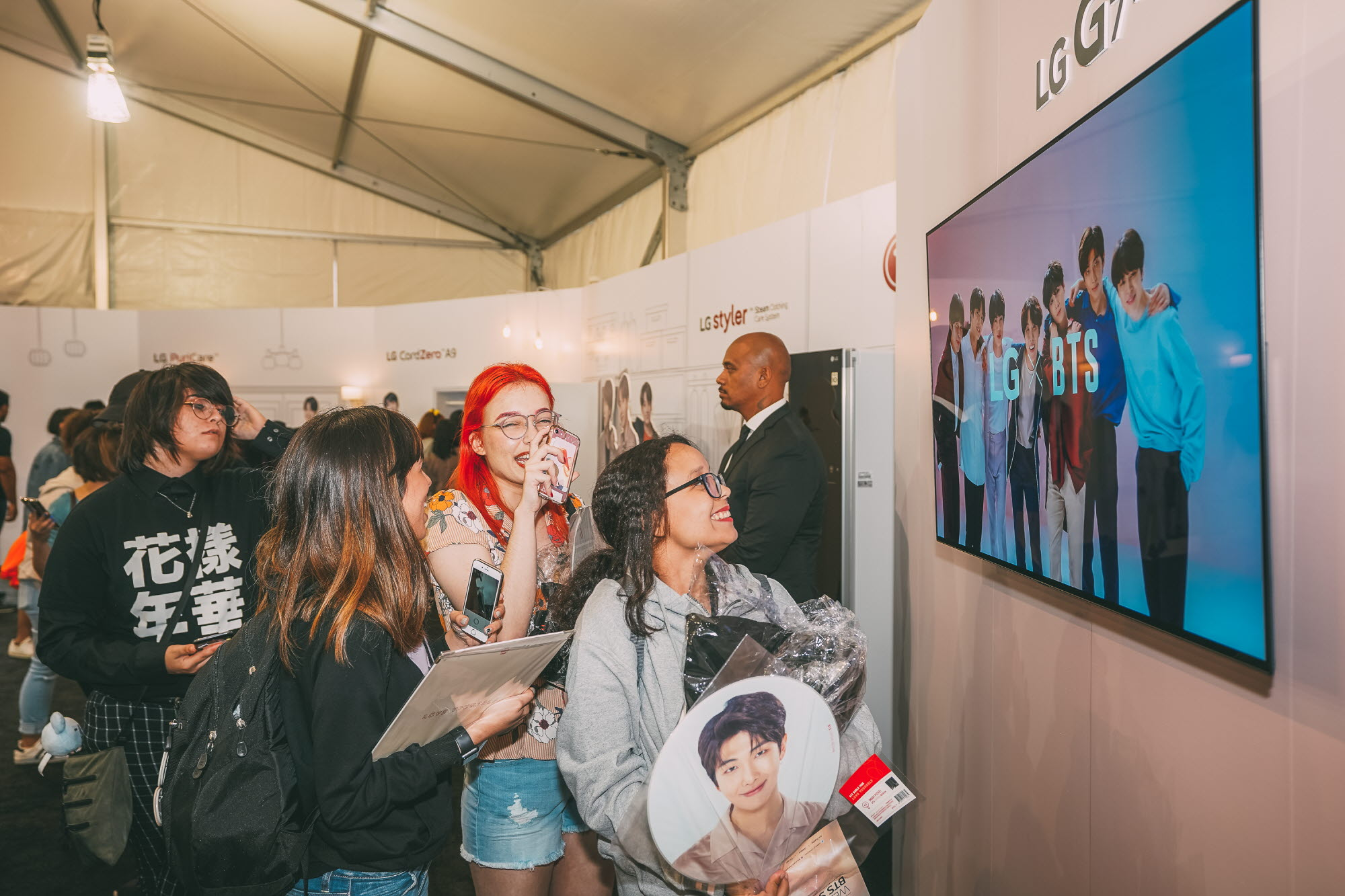 Fans at the BTS world tour concert 'Love Yourself' in Los Angeles ■ Marketing campaign in conjunction with BTS' second world tour in the United States ■ Operation of 'BTS Studio' including product experience hall, photo and video booth